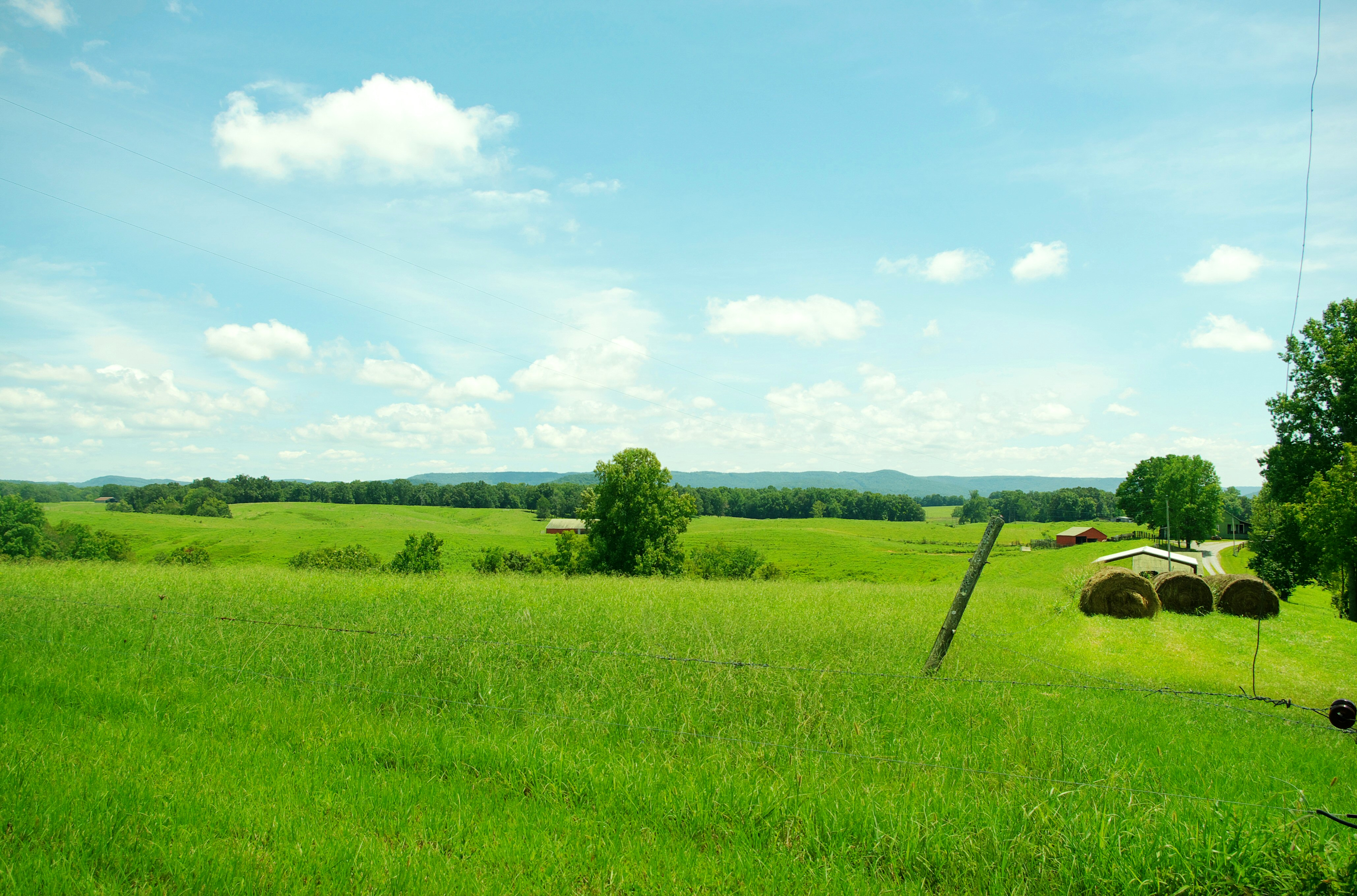 Farm near the Bone Cave community of Van Buren County, Tennessee, United States.